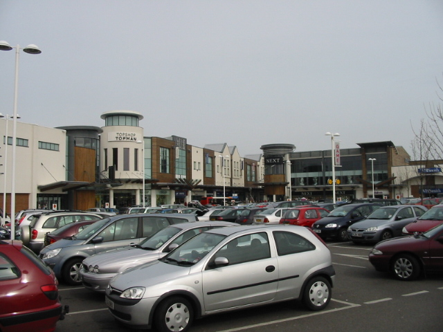 Westwood Cross shopping centre Westwood Cross is on the junction of the A256 Haine Road and the A254 Margate Road on the Isle of Thanet in Kent.